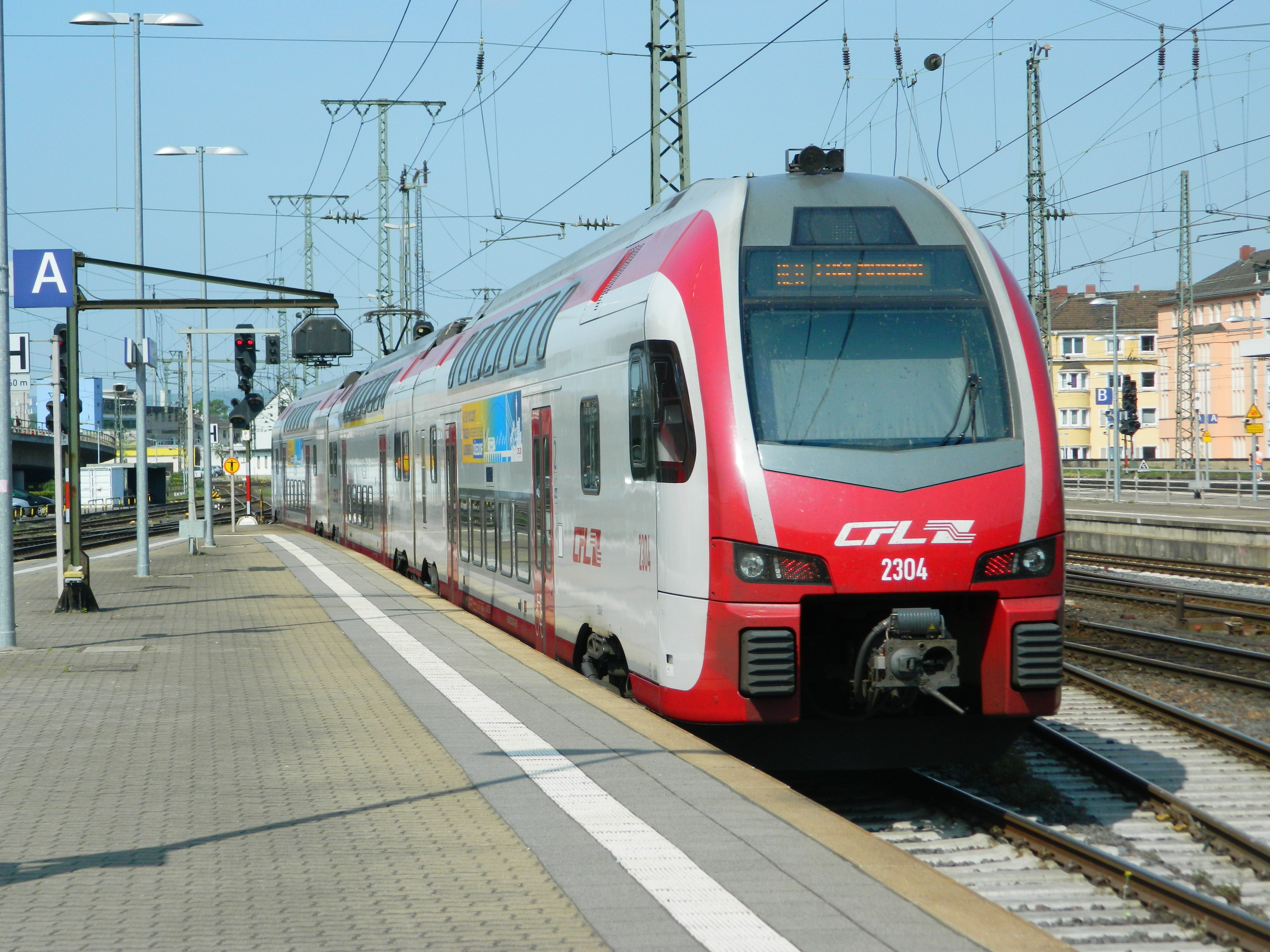 CFL 2304 on the IC5106 service from Düsseldorf Hbf to Luxembourg, seen at Koblenz wearing advertising vinyls for the service.